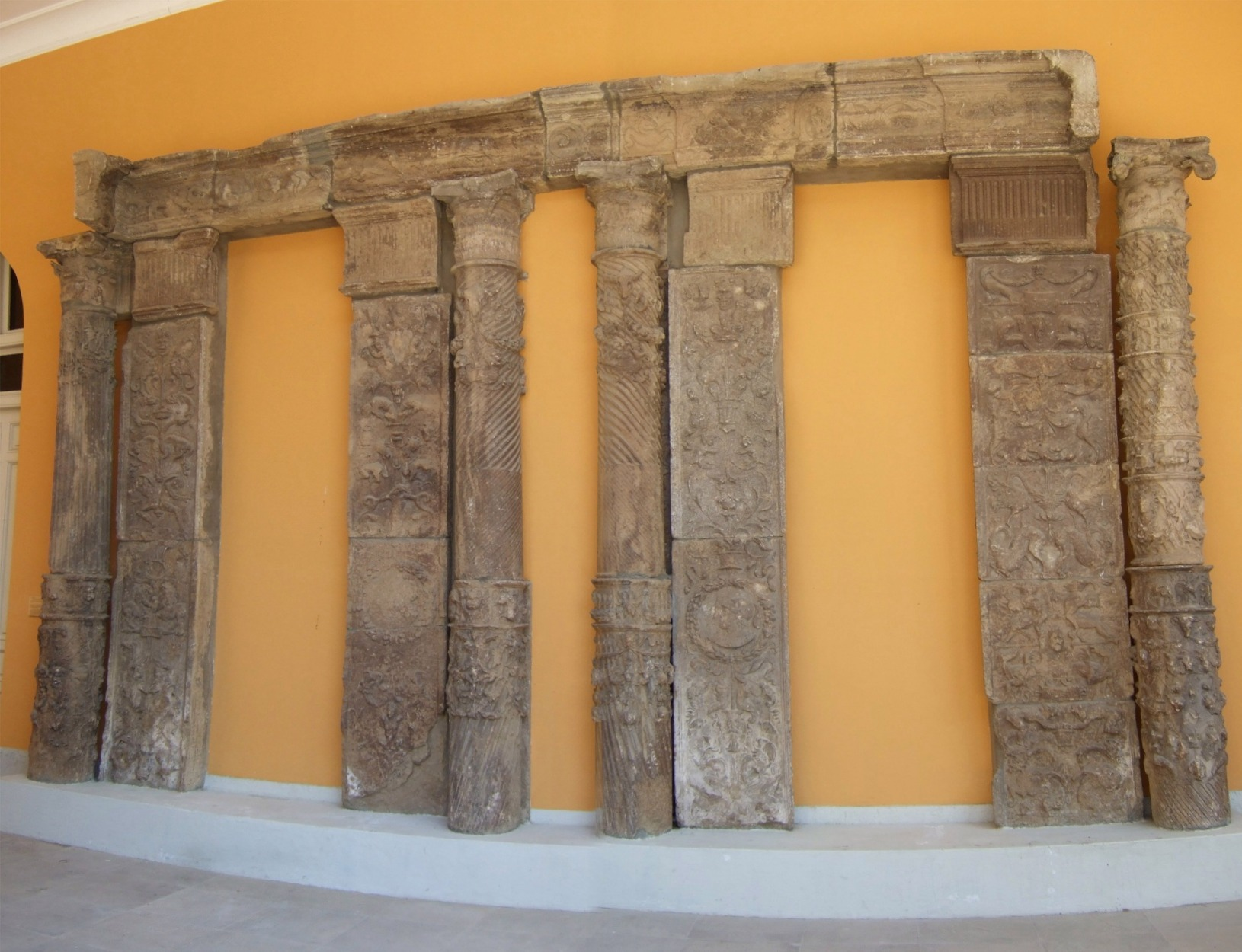 rests of the Palacio General del Reino palace (1539). Sandstone. Museum of Zaragoza